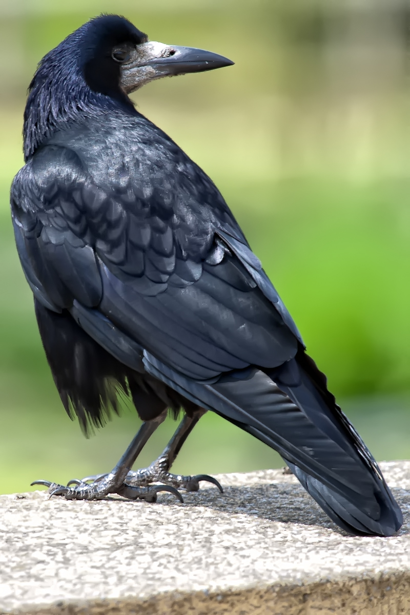 A Rook in Cookridge, Leeds, West Yorkshire, England.